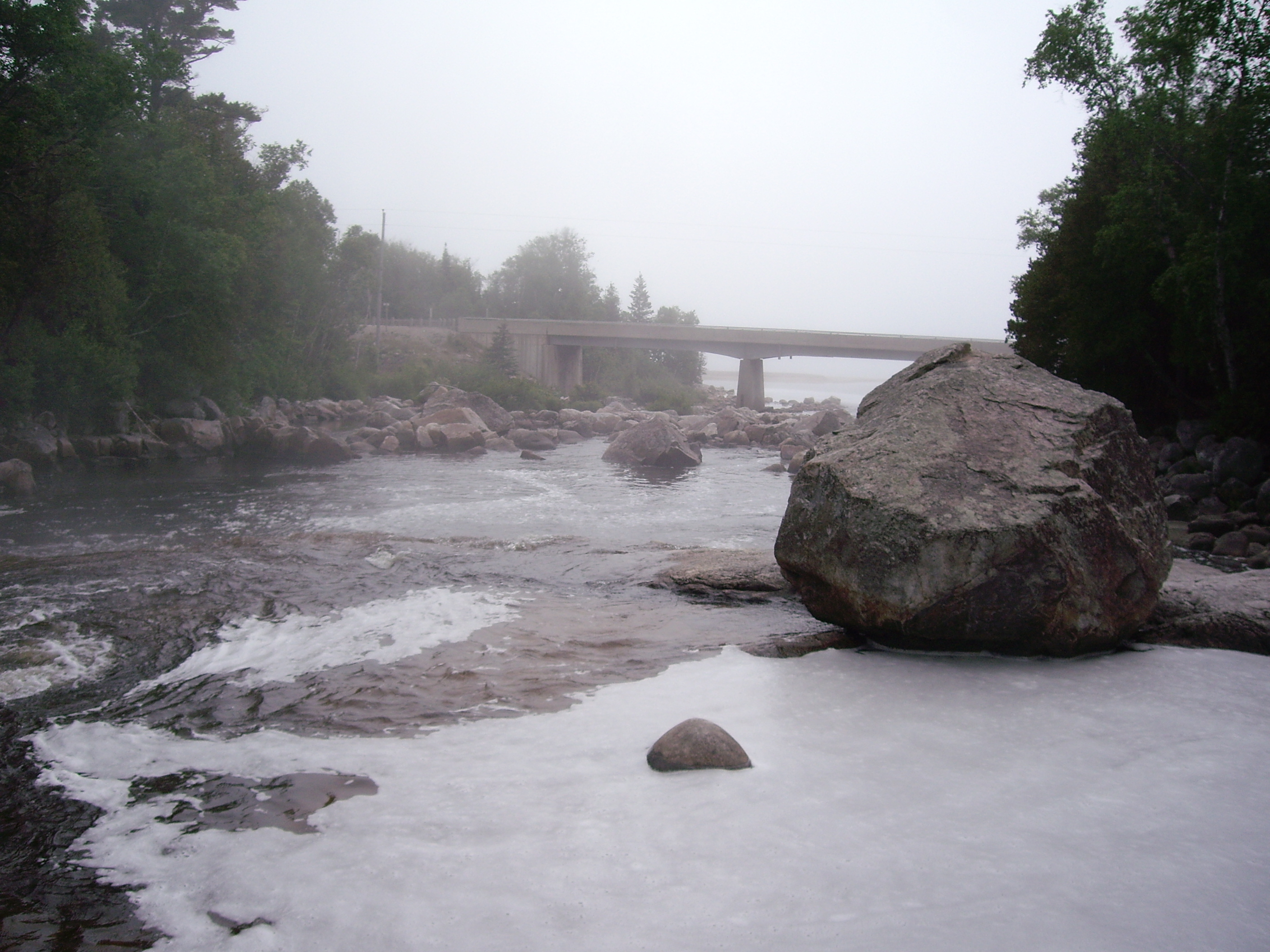 Sand River looing downstream towards Highway 17 and Lake Superior